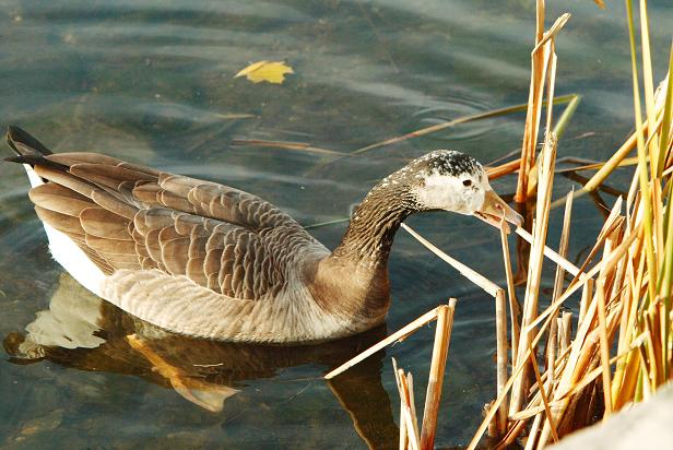 Hybrid Greylag Goose x Domestic Goose at Hamilton Harbour, Ontario, Canada on November 10, 2006. (previously misidentified as Greylag/Canada Goose Hybrid)